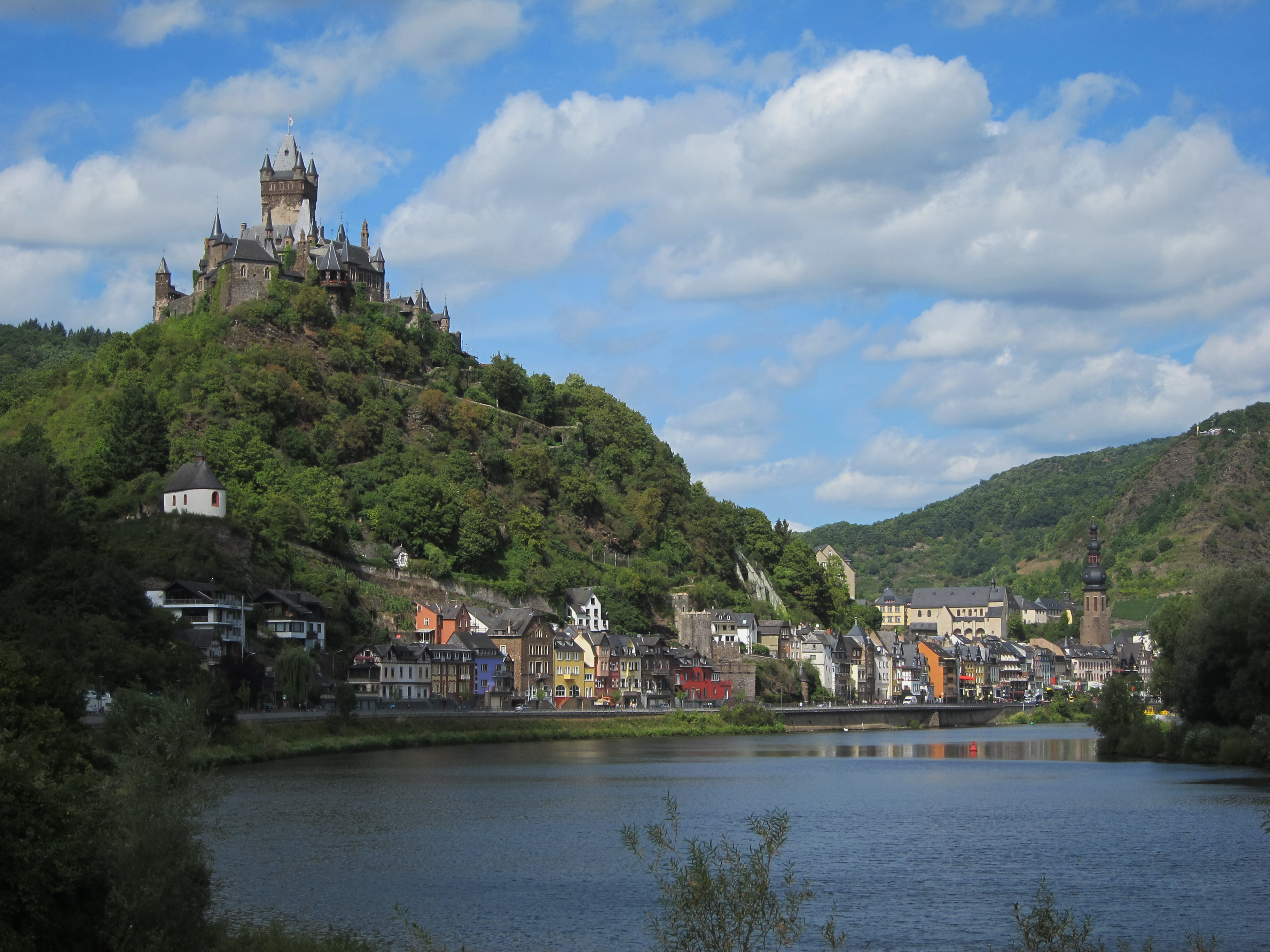 Anothe Panorama of Cochem with its church and castle at 26 August 2015, as seen from the South